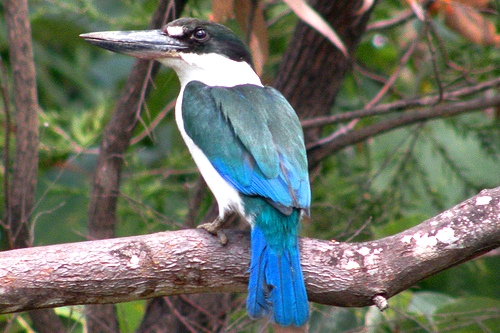 Forest Kingfisher found in Central Queensland, Australia